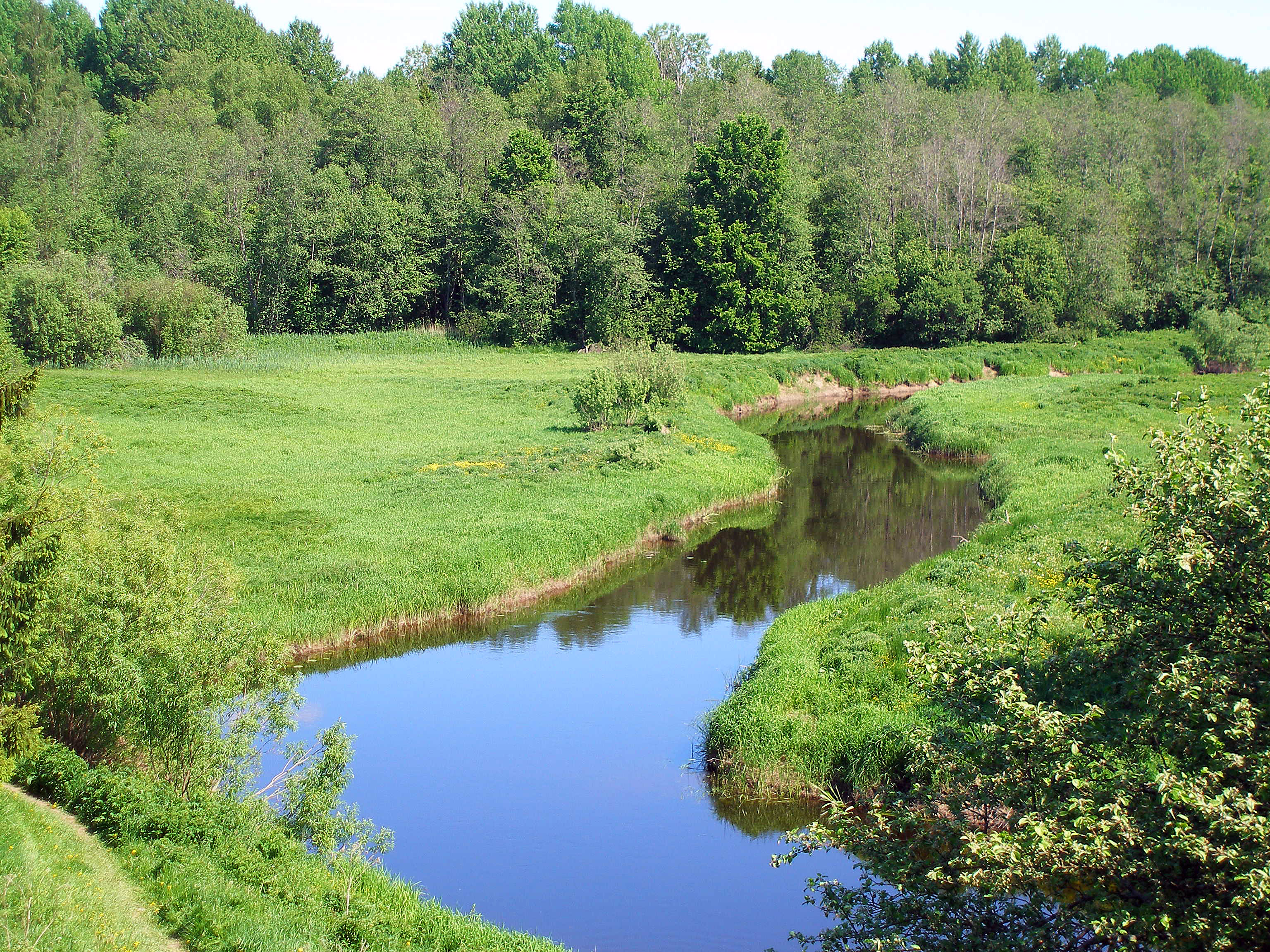 Pedja River at Altmetsa, Alam-Pedja Nature Reserve, Estonia.